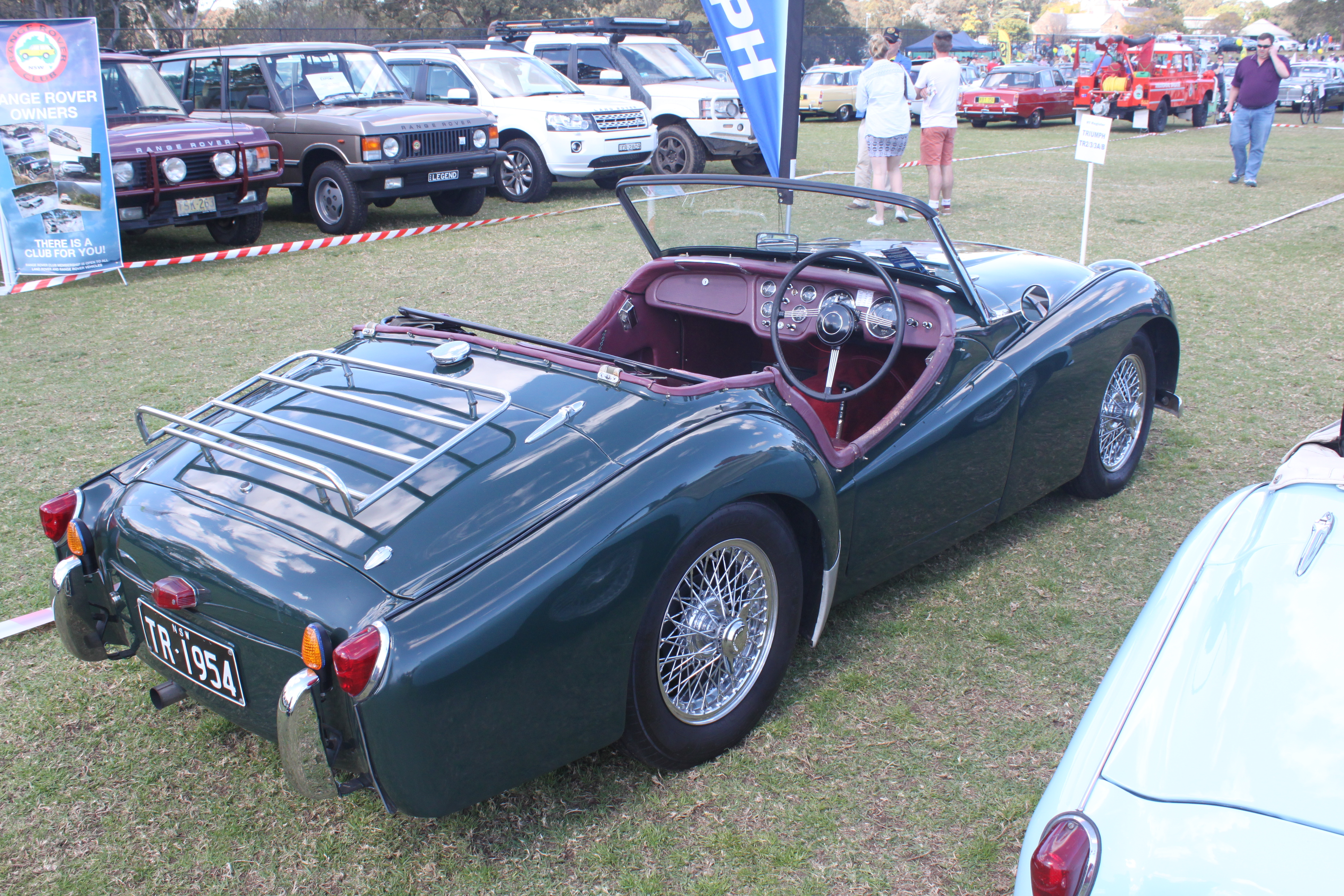 All British Day, Kings School, North Parramatta, NSW August 2015